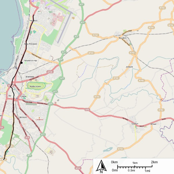 Ayr Corporation Tramways Legend: *━━━ Primary lines *━━━ Secondary lines *━━━ Tertiary lines